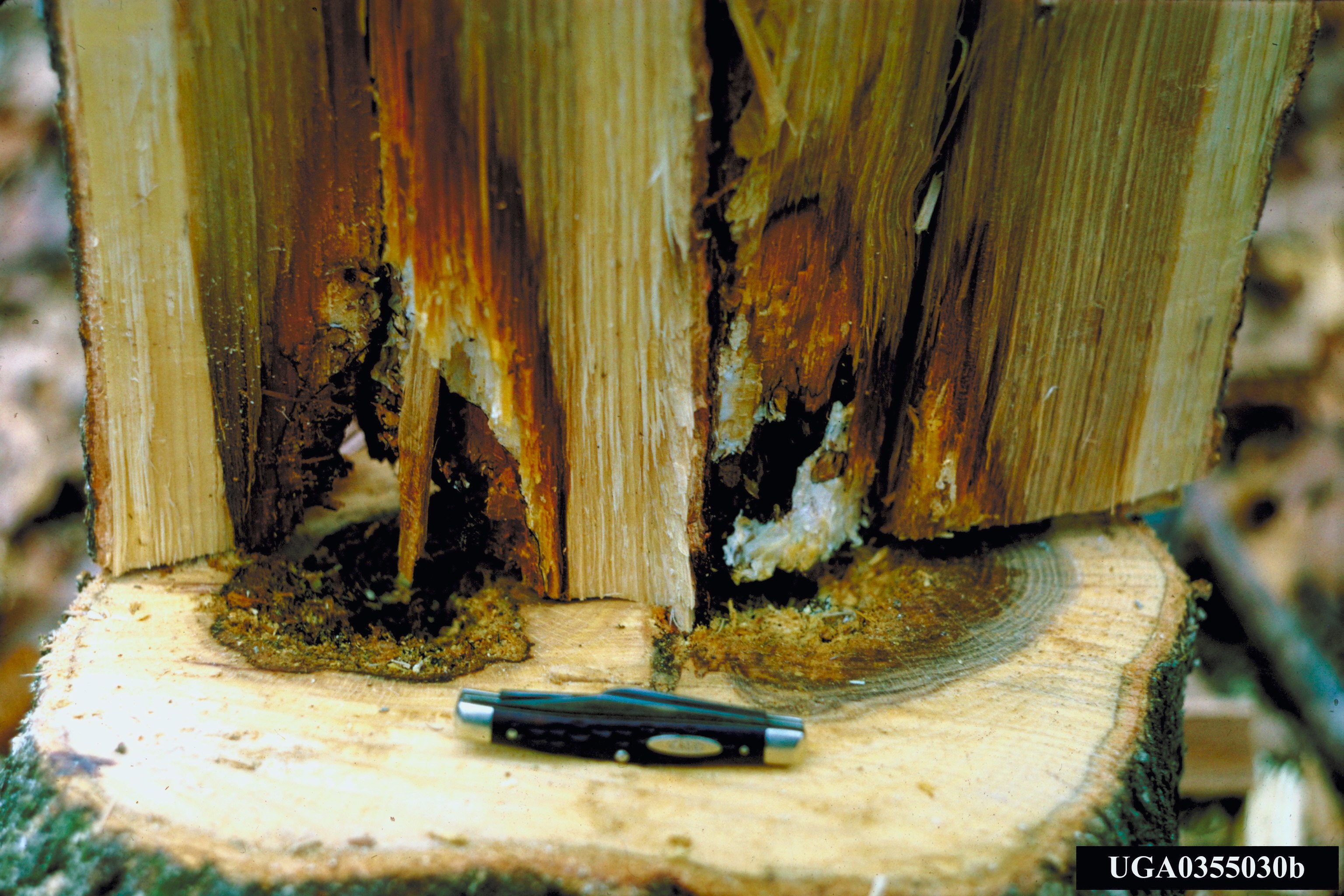 Photo of rot symptoms due to Armillaria